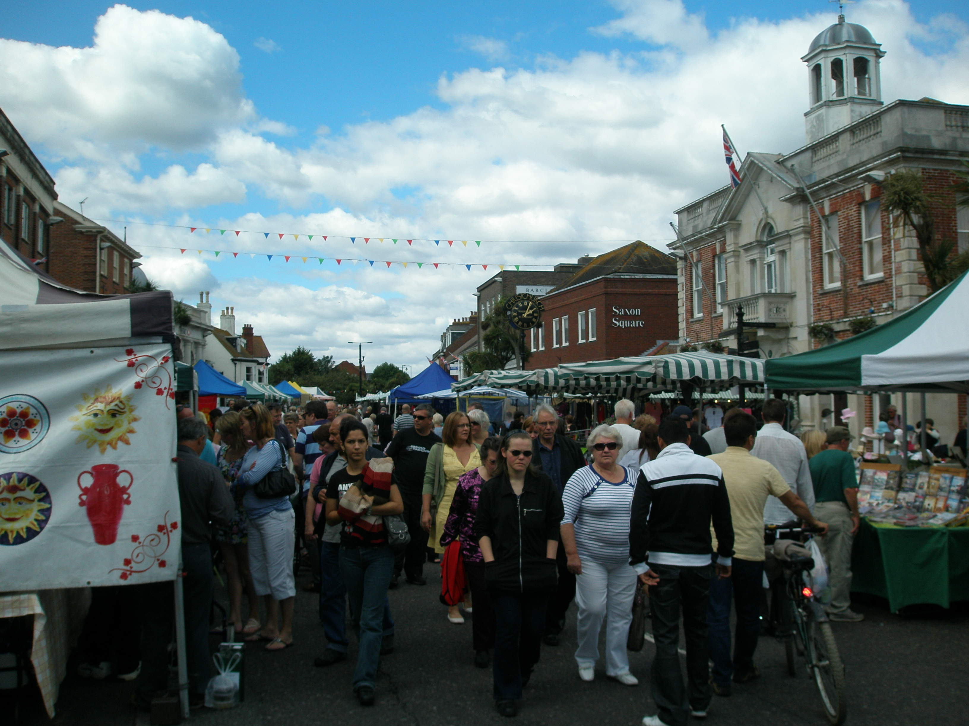 The weekly (Monday) market in the town of Christchurch, Dorset. 2010.